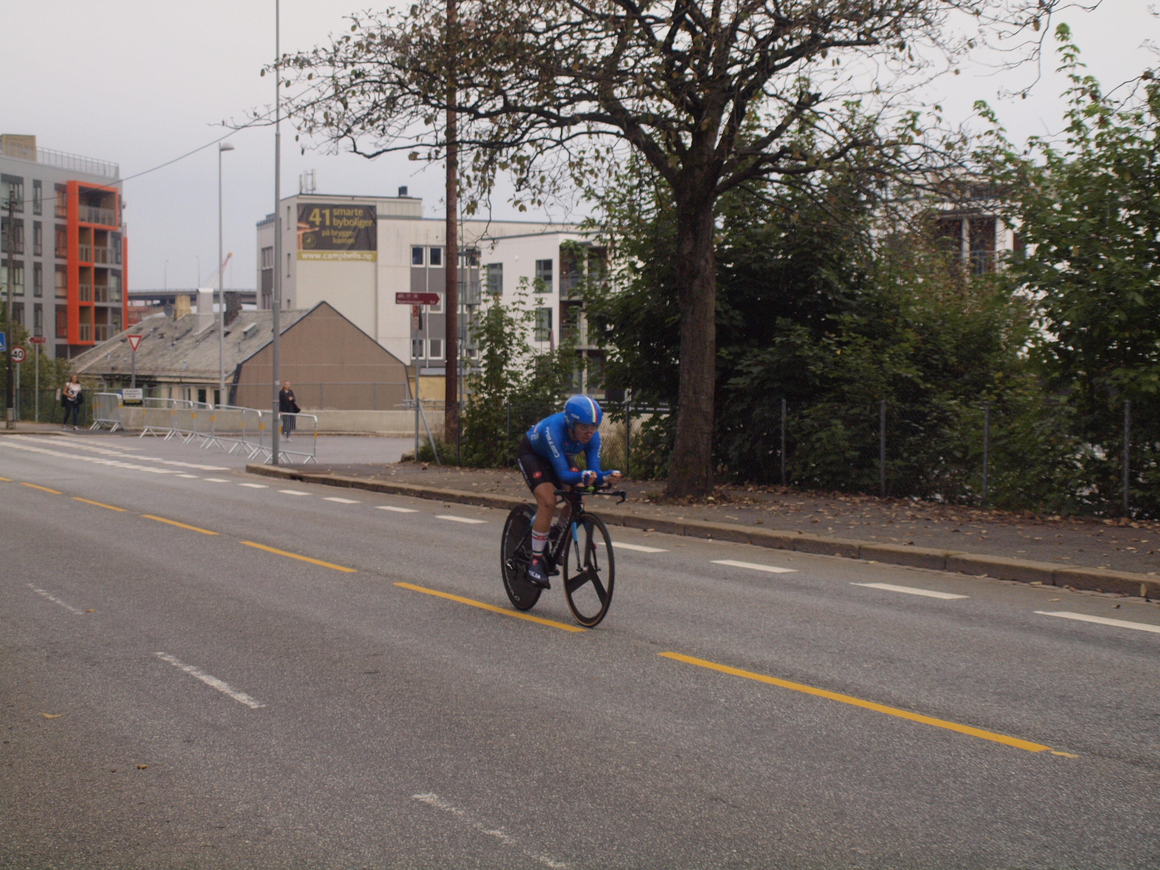 Elene Pirrone at the 2017 UCI World Championships